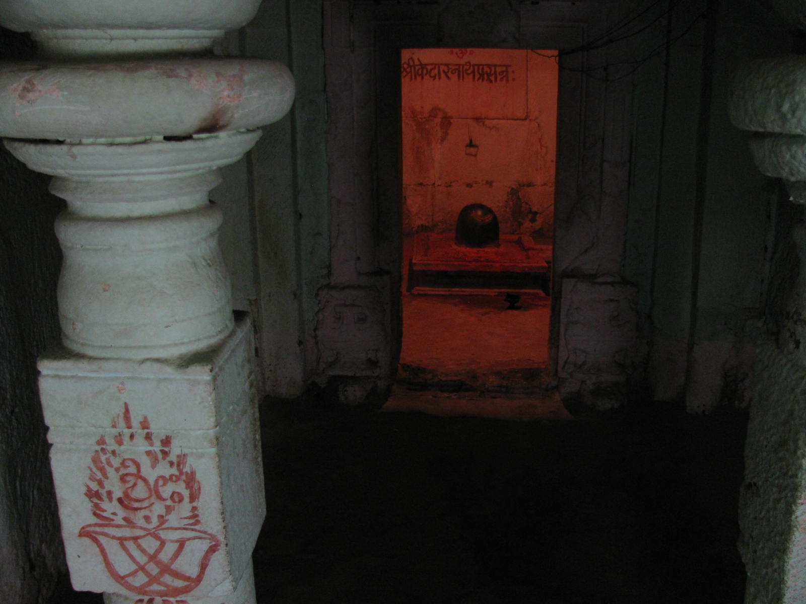 Kuknur-Navalinga